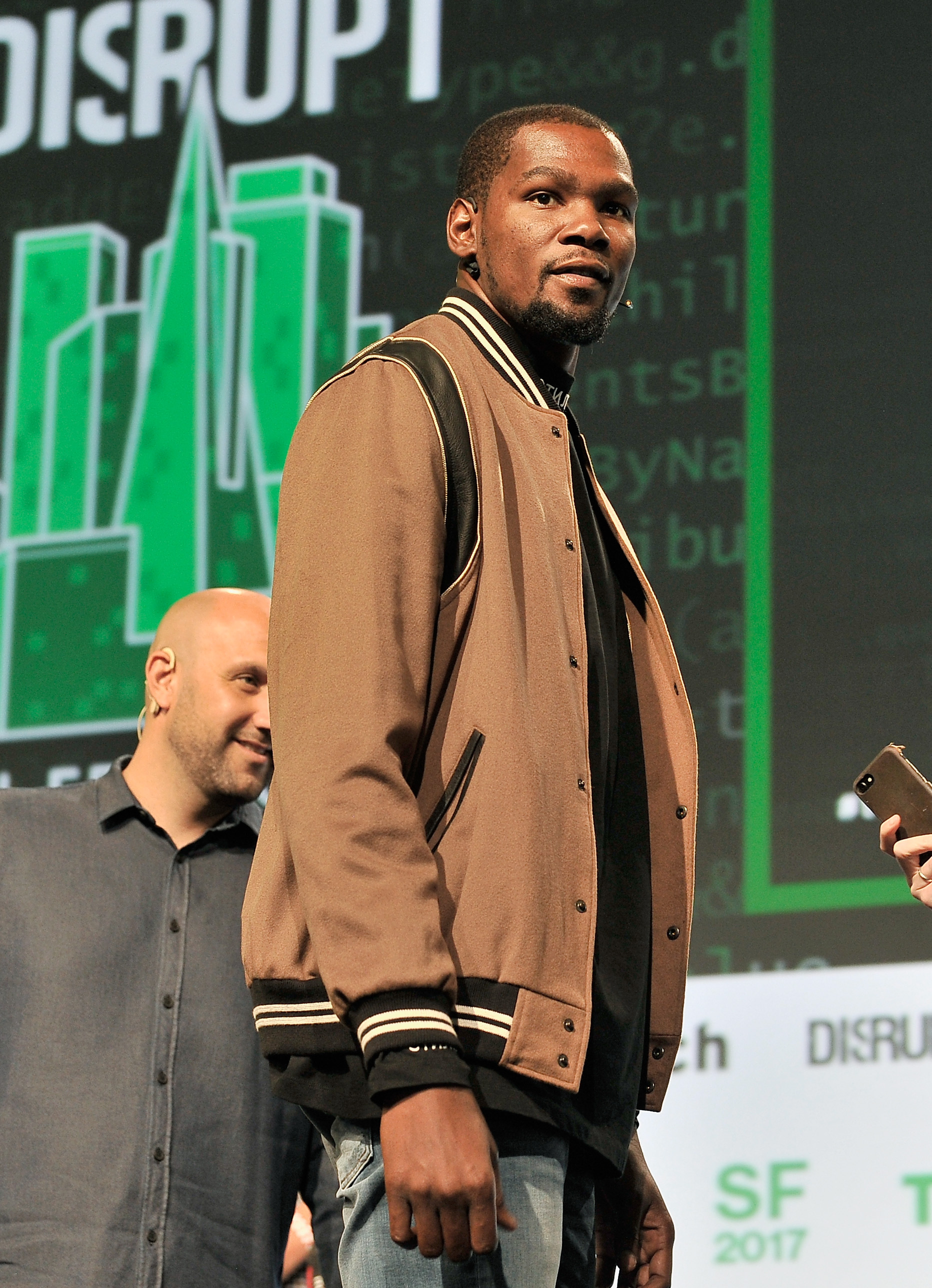 SAN FRANCISCO, CA - SEPTEMBER 19: NBA Player and Durant Company/Thirty Five Media Partner Kevin Durant speaks onstage during TechCrunch Disrupt SF 2017 at Pier 48 on September 19, 2017 in San Francisco, California. (Photo by Steve Jennings/Getty Images for TechCrunch)